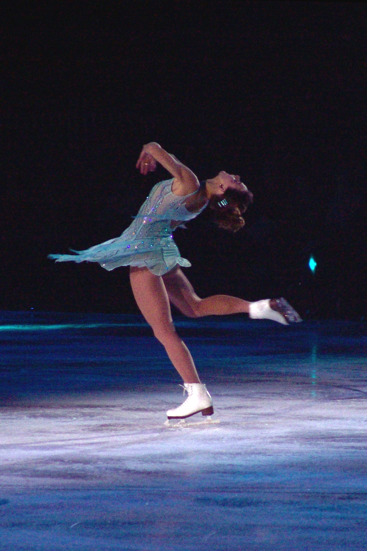 Ekaterina Gordeeva solo performance at the Smucker's Stars on Ice performance in Bridgeport, CT (USA) March 25 2007